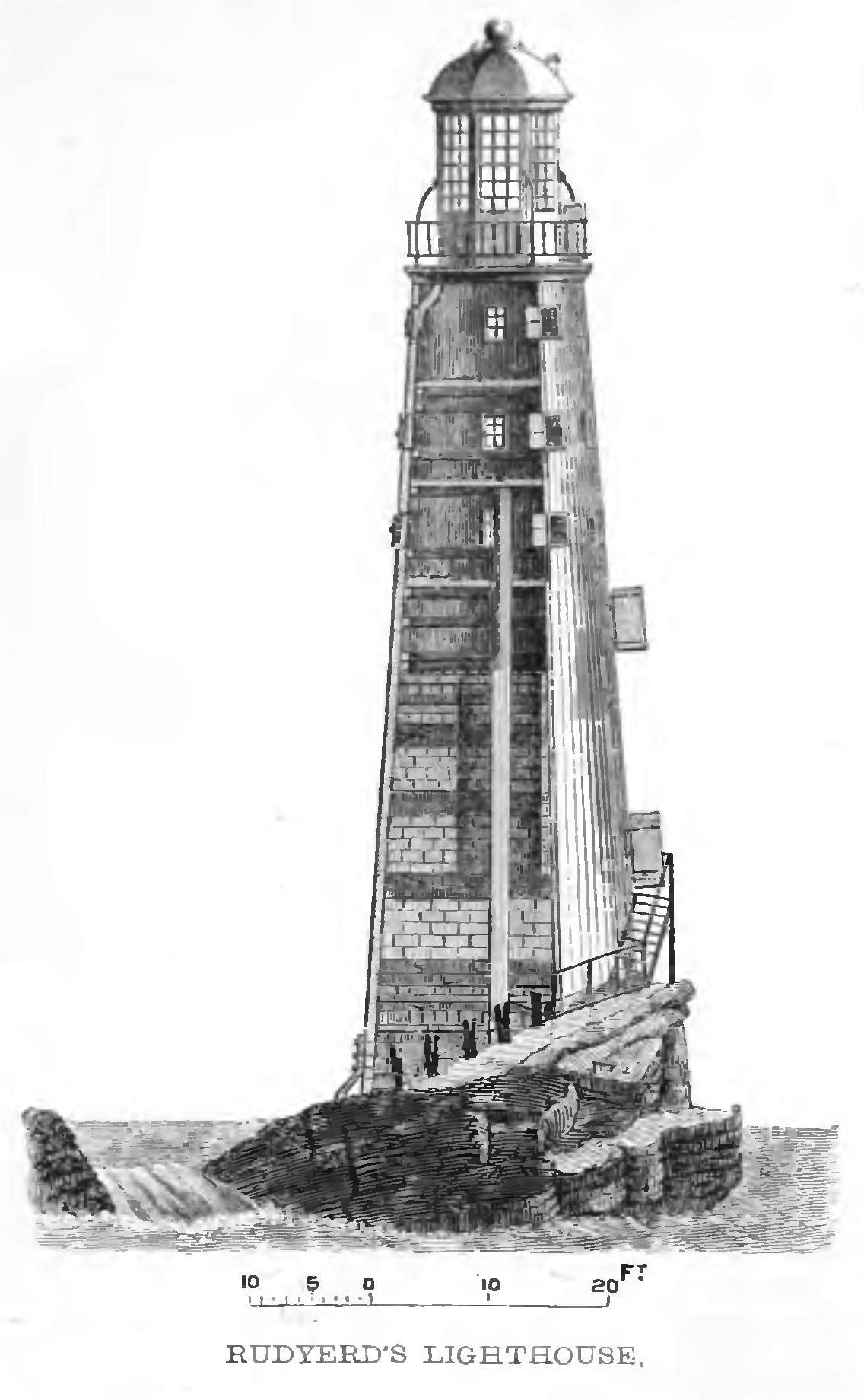 Cross section of Mr. Rudyard's design for the Eddystone Lighthouse, off Plymouth, England. Constructed 1706-1709, burned down 1755.